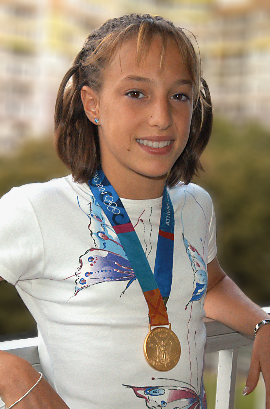 French gymnast Émilie Le Pennec at her apartment in 2005. She won the gold medal for uneven bars at the Athens 2004 Olympics.